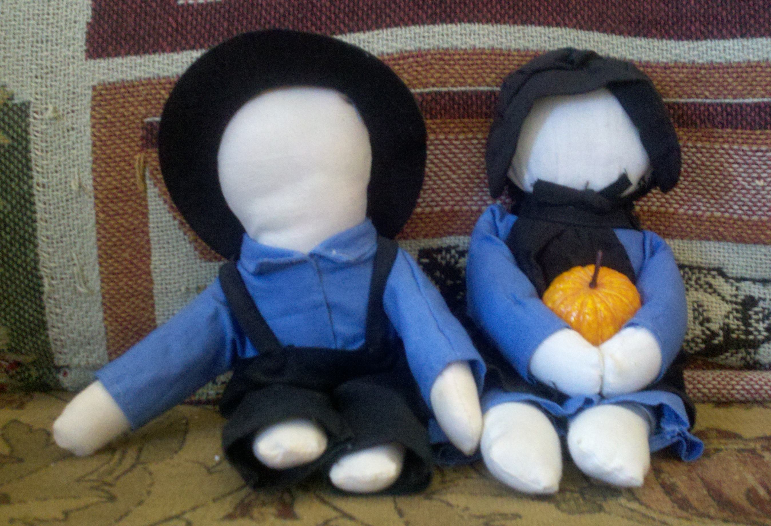 A photo of Amish faceless dolls